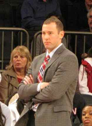 Joe Tartamella, head coach St. Johns women's basketball team. Taken at Maggie Dixon Classic 22 Dec 2013 in Madison Square Garden